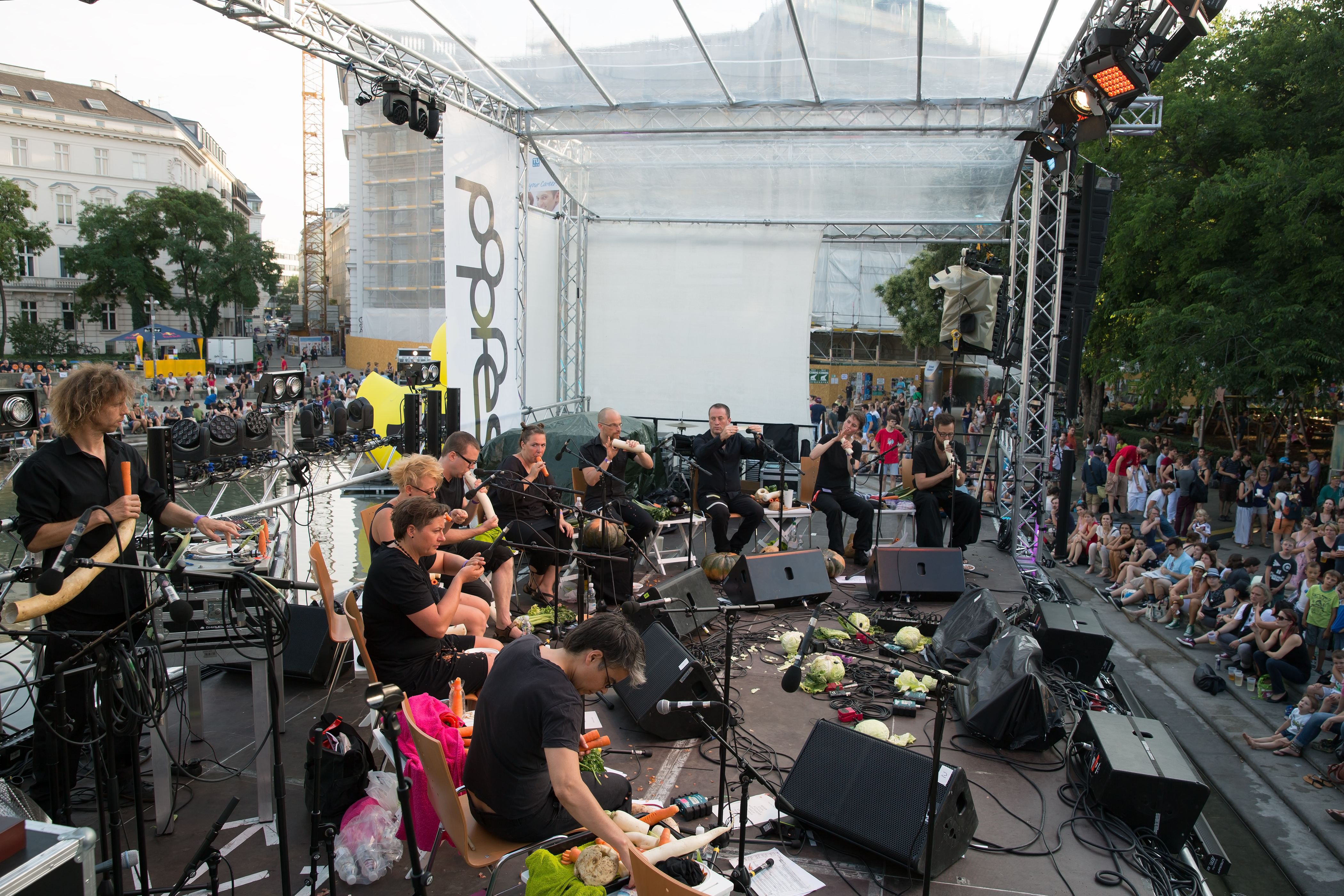 Popfest 2015: The Vegetable Orchestra; Karlsplatz in Vienna, Austria.